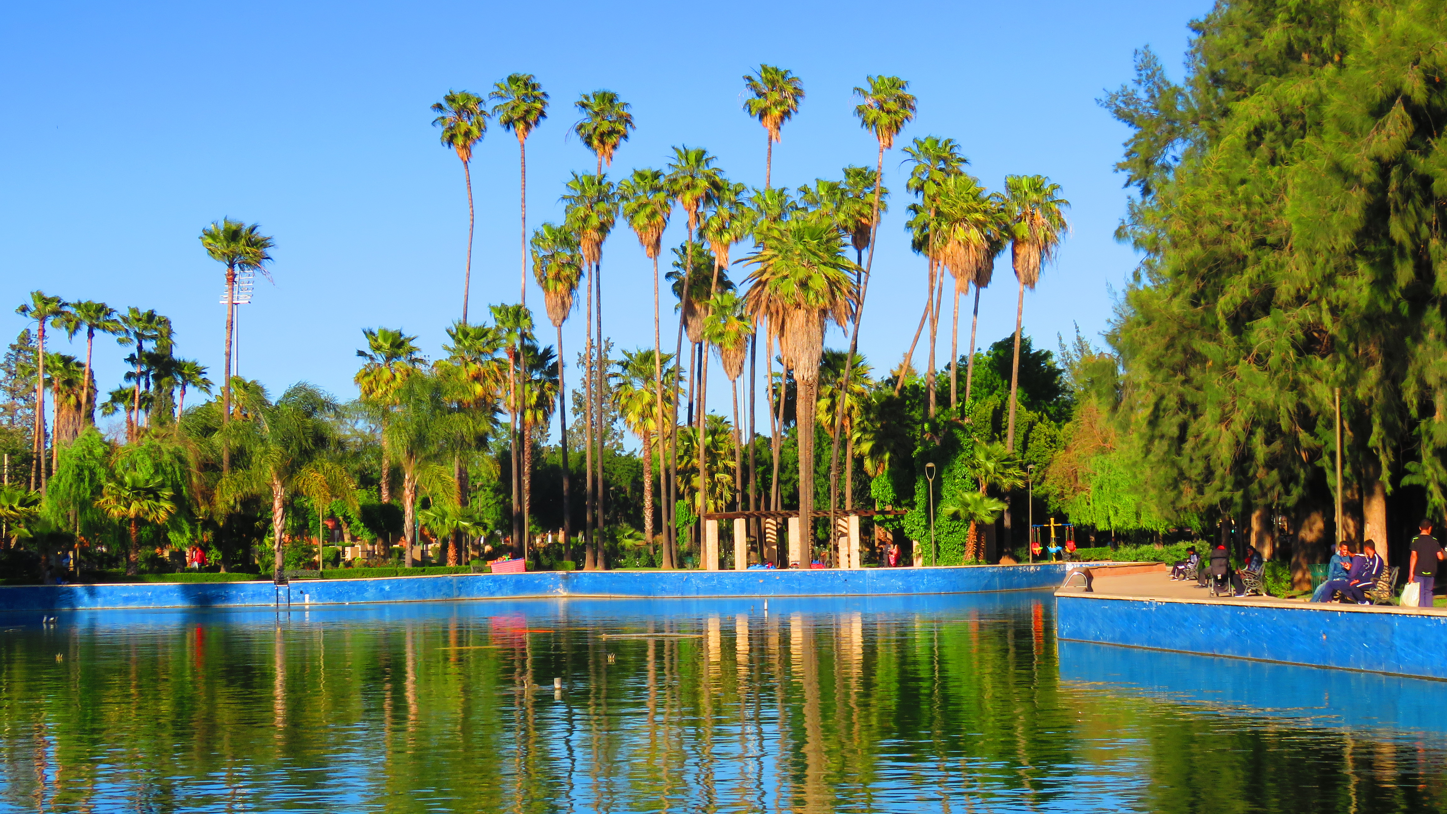 Oued Zem Lake, Khouribga Province, Morocco